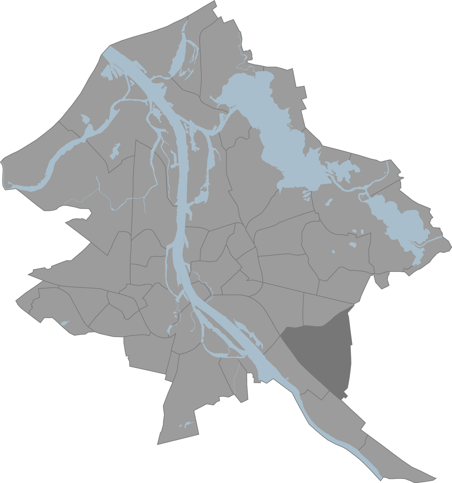 A map of Riga, Latvia with the eponymous commune highlighted